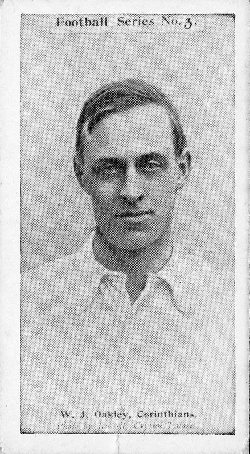 W.J. Oakley of Corinthians depicted on a football card.